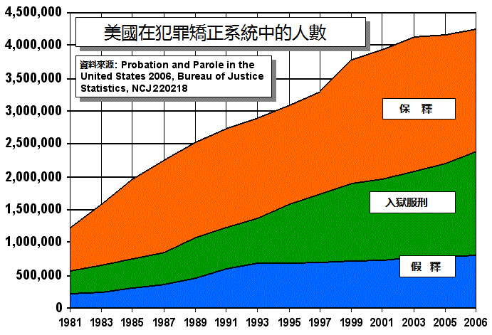 U.S. timeline of adults under correctional supervision. Over 7.2 million people were on probation or parole, or incarcerated in jail or prison at yearend 2006. "About 3.2% of the U.S. adult population, or 1 in every 31 adults, were incarcerated or on probation or parole at yearend 2006." [1] The statistics for the chart are from the Bureau of Justice Statistics (BJS), U.S. Department of Justice: Correctional Population Trends Chart: [2]. Data: [3]. Probation and Parole in the United States, 2006. NCJ 220218. [4]. Published December 2007. Adults on probation, in jail or prison, and on parole, United States, 1980-2006. PDF file. csv file format. From Sourcebook of Criminal Justice Statistics using BJS info. Traditional Chinese version.